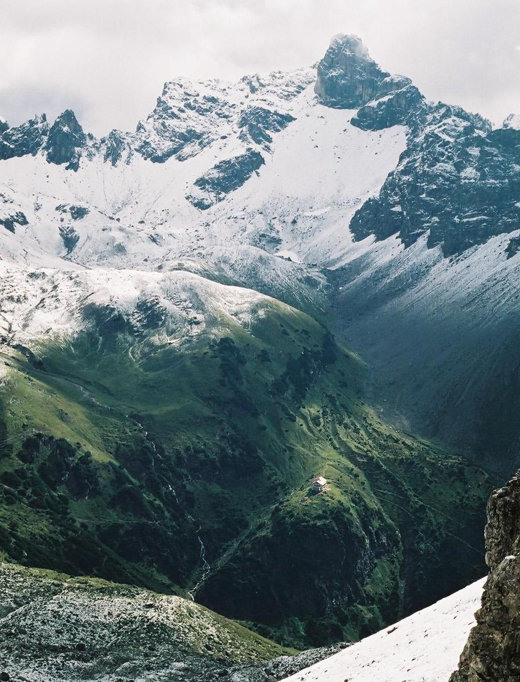 Steinseehütte, Lechtaler Alps, Austria